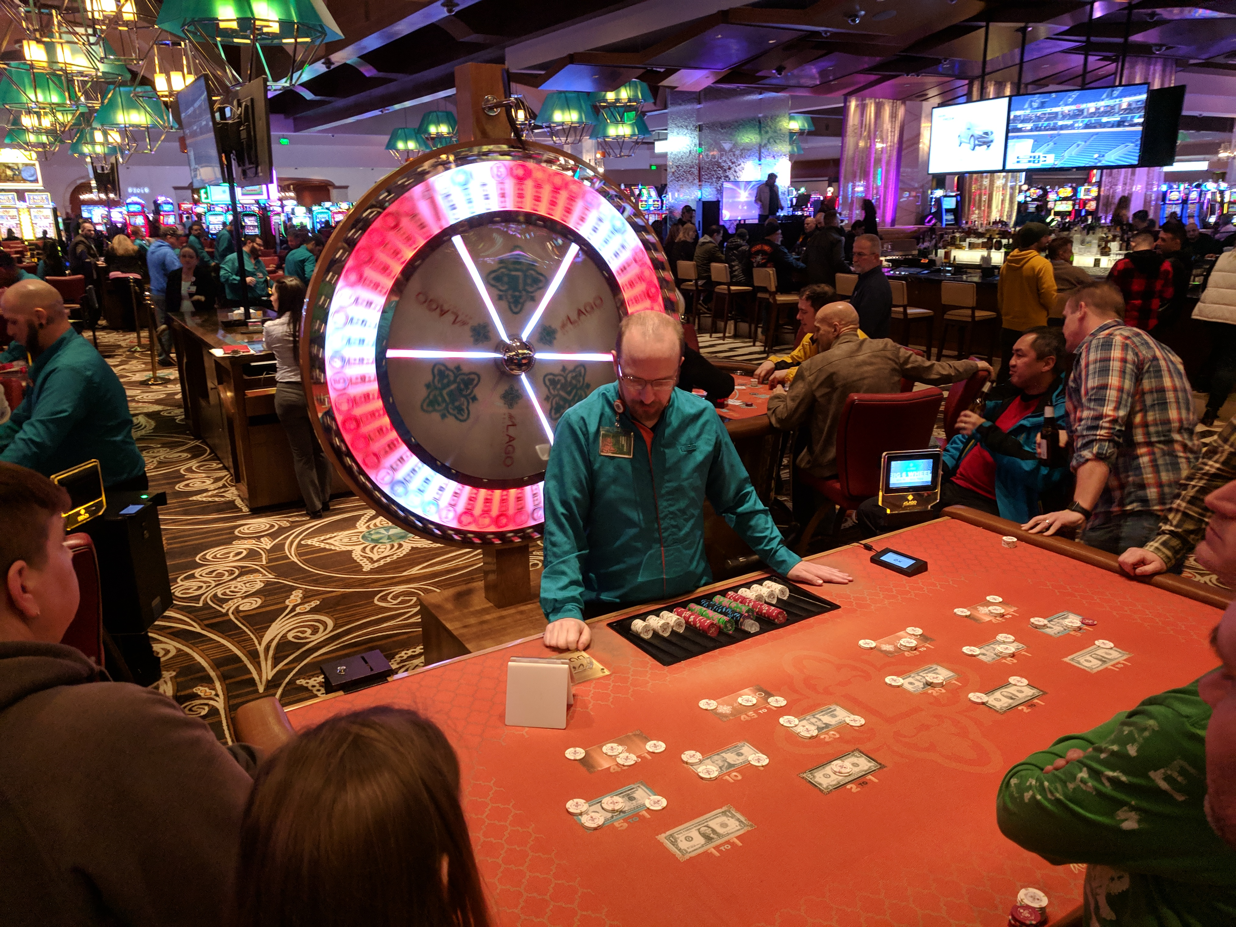 Dealer and players wait for the Big Six wheel to come to a stop at Del Lago Resort and Casino